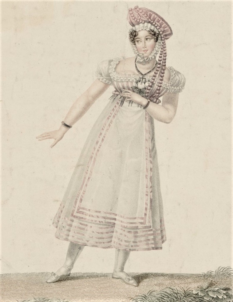 Augustine Albert as Philis in Louis-Sébastien Lebrun's opera Le Rossignol. (premiered Paris Opéra, 23 April 1816)